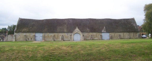 Photograph of the thatched Tithe Barn at Place Farm, Tisbury, Wiltshire, England.